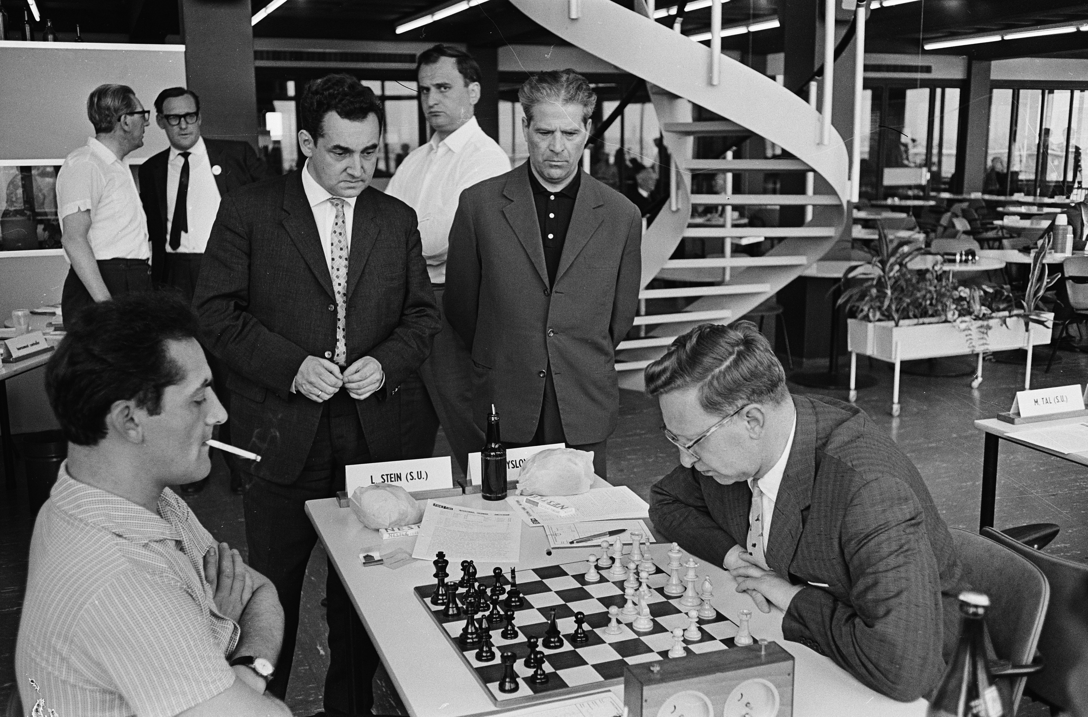 Interzonal Chess Tournament (FIDE), May 1964, The Netherlands. From left to right: Stein, Taimanov, Ivkov, Lilienthal, Smyslov.